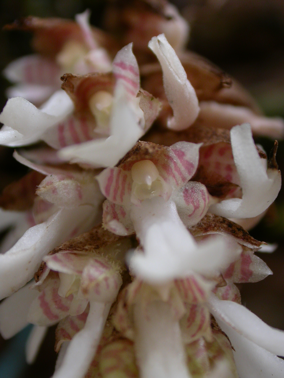 Saundersia mirabilis